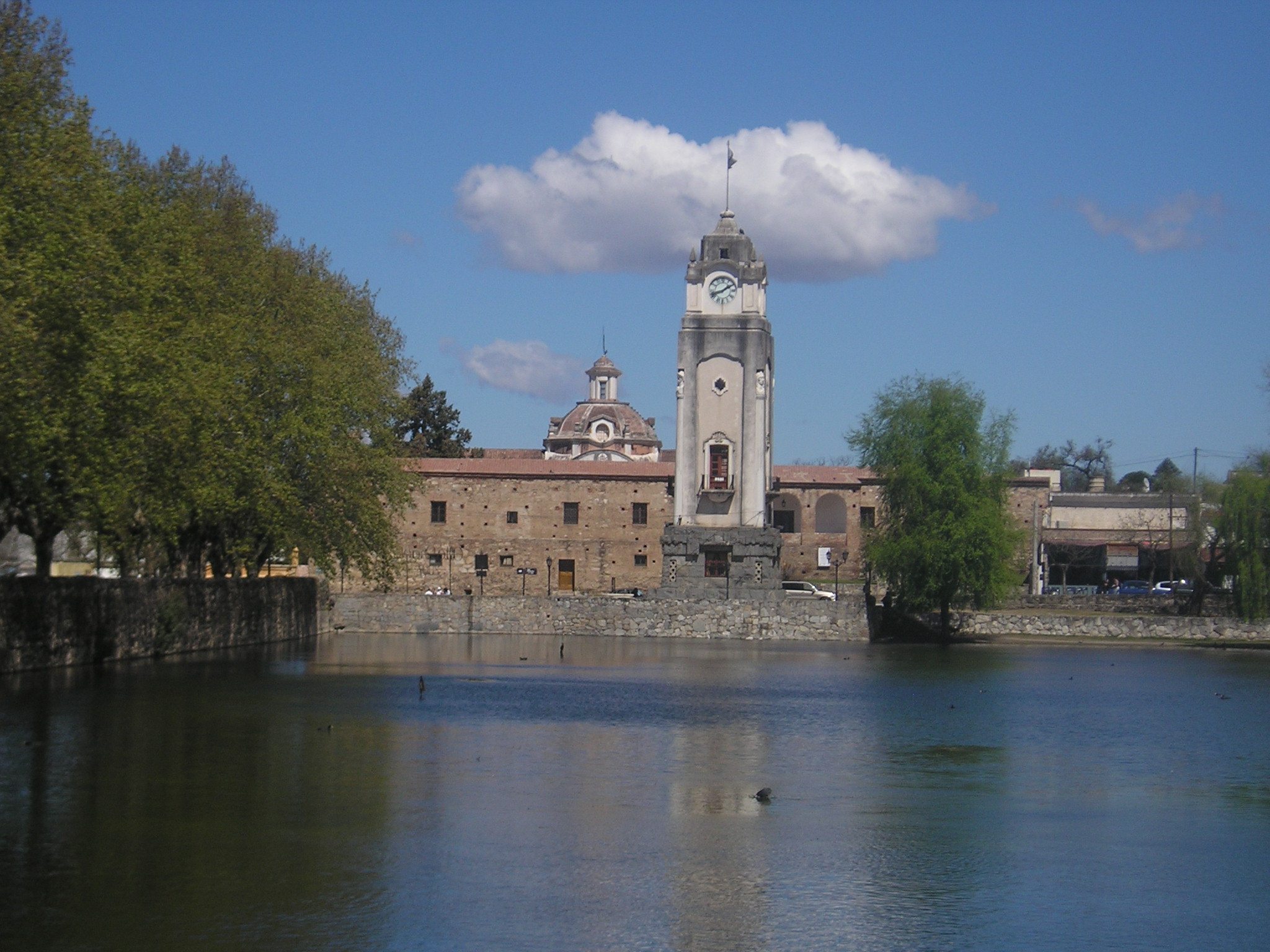 Alta Gracia, Argentina - a view of tajamar, clock tower and Jesuit residence